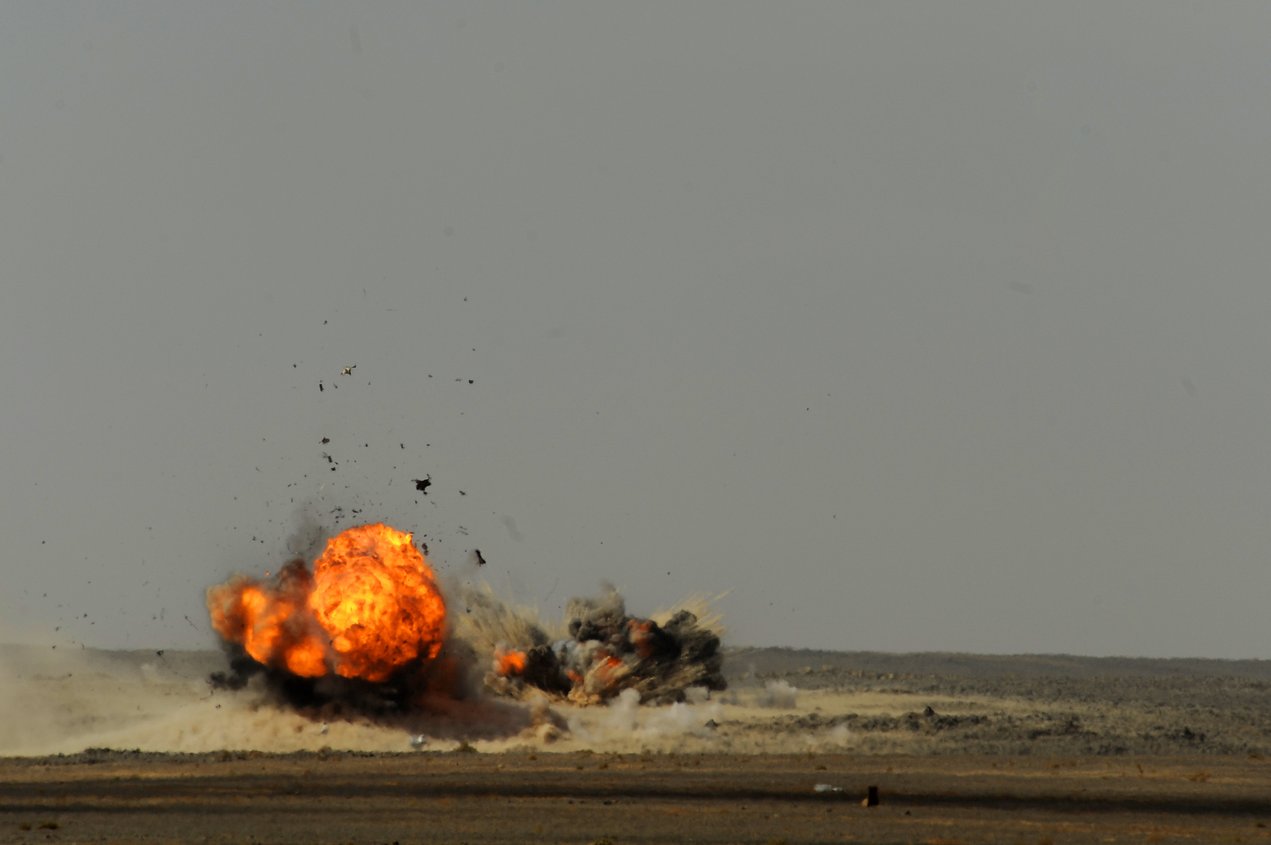 Two 500-pound bombs explode on a target after they were dropped by a Pakistani air force Mirage III aircraft during Falcon Air Meet 2010 at Azraq Royal Jordanian Air Base in Azraq, Jordan, Nov. 1, 2010.. The United States, Jordan and Pakistan participated in Falcon Air Meet 2010 to improve international military relations and joint air operations. (U.S. Air Force photo by Staff Sgt. Eric Harris/Released)